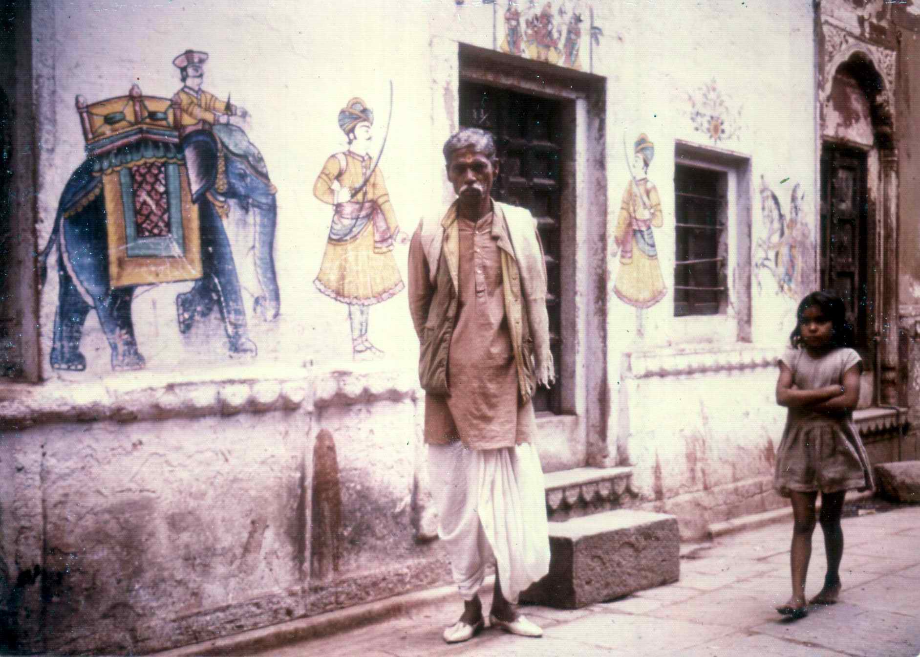 I took this photo myself in 1973. John Hill 01:10, 18 August 2007 (UTC) Note: This photo was actually taken in 1973 NOT 1974 - but I don't know how to change the name and it probably doesn't matter much. John Hill 01:53, 18 August 2007 (UTC)